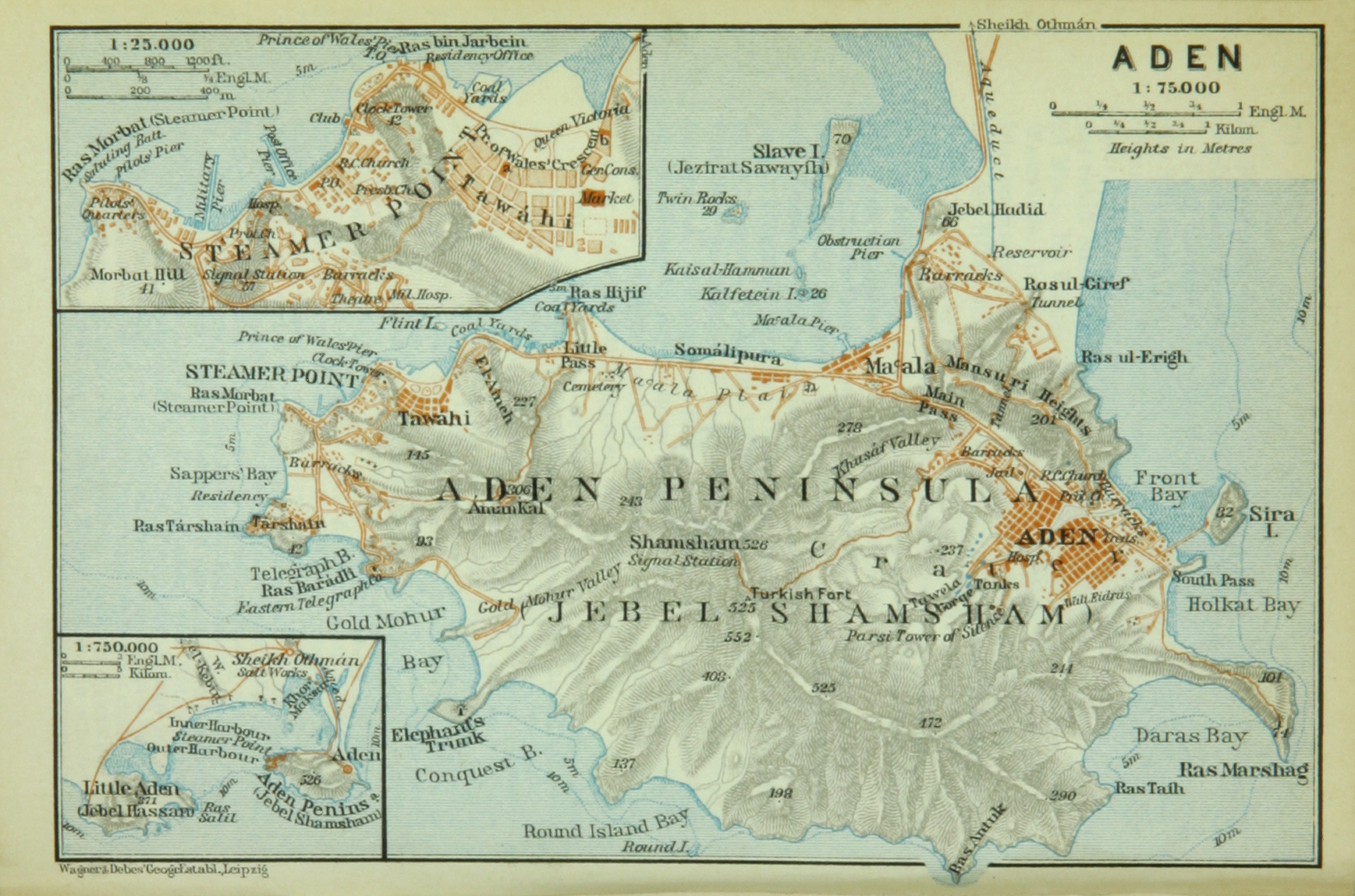 Map of the city of Aden (1:75,000), from "Baedeker's Indien" travel guide (1914), in English.